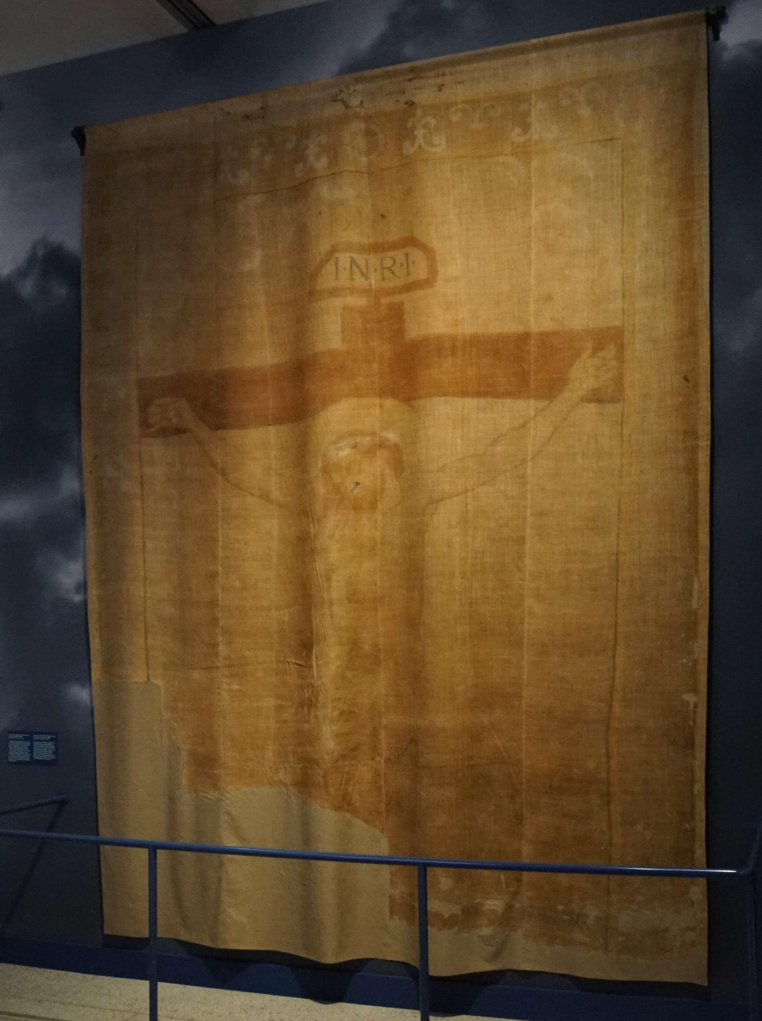 Flag of conquered galleon 'San Mateo' from the Spanish Armada. Museum De Lakenhal, Leiden, The Netherlands. Photgraph taken during exhibit 'Pilgrims to Amerika - and the limits of freedom (2020).